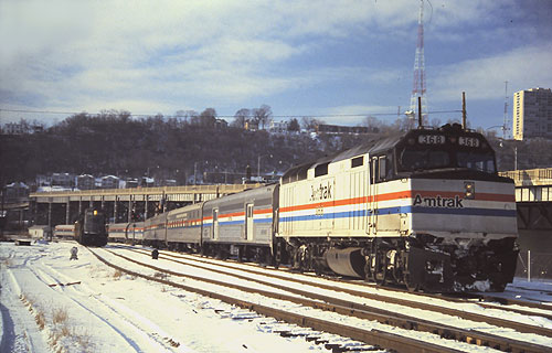 The eastbound Cardinal at Cincinnati River Road station in December 1989